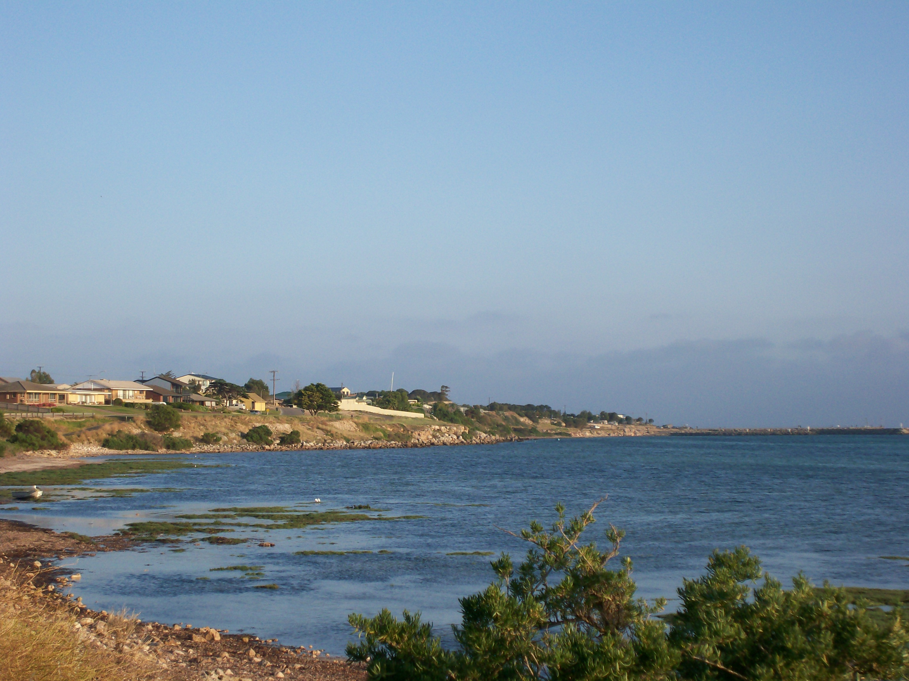 A shot of part of Point Turton taken by Kurtis Eichler in 2007.